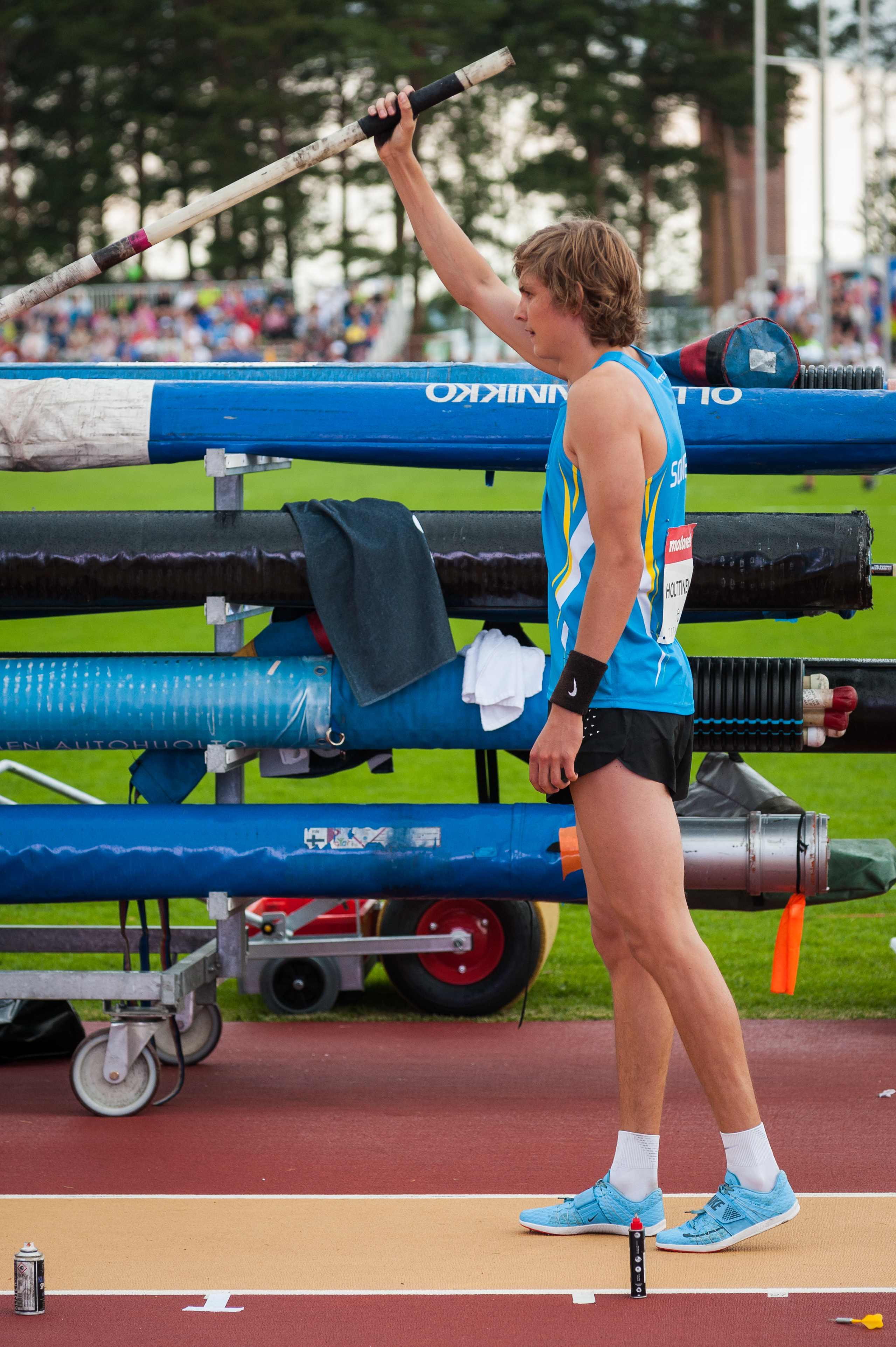 Men's pole vault competition at the 2018 Kalevan Kisat, the Finnish championships in athletics, in Jyväskylä, Finland.